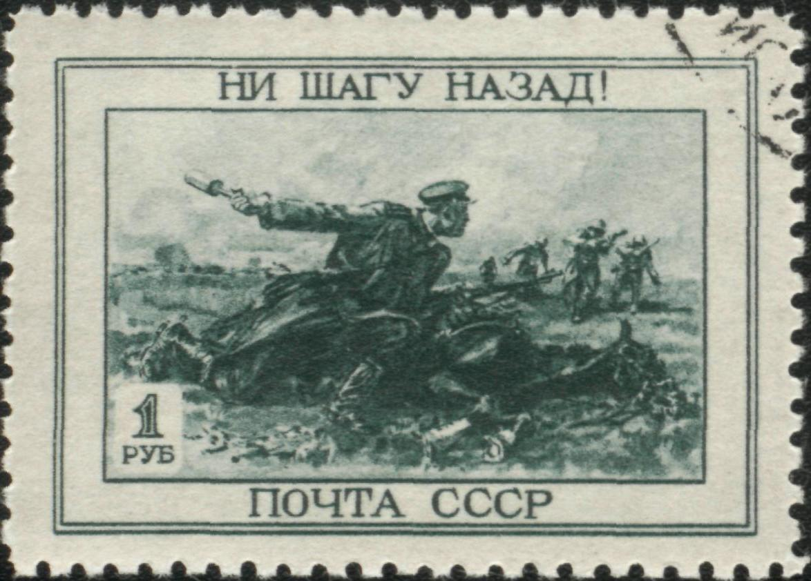 Not a step back! USSR stamp, April 1945. 1 rouble, black-and-green, cancelled. A soldier with a hand grenade. CPA No. 971.